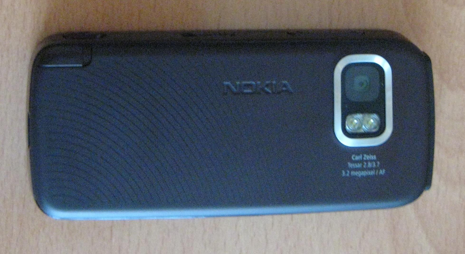 Rear of Nokia 5800 XpressMusic